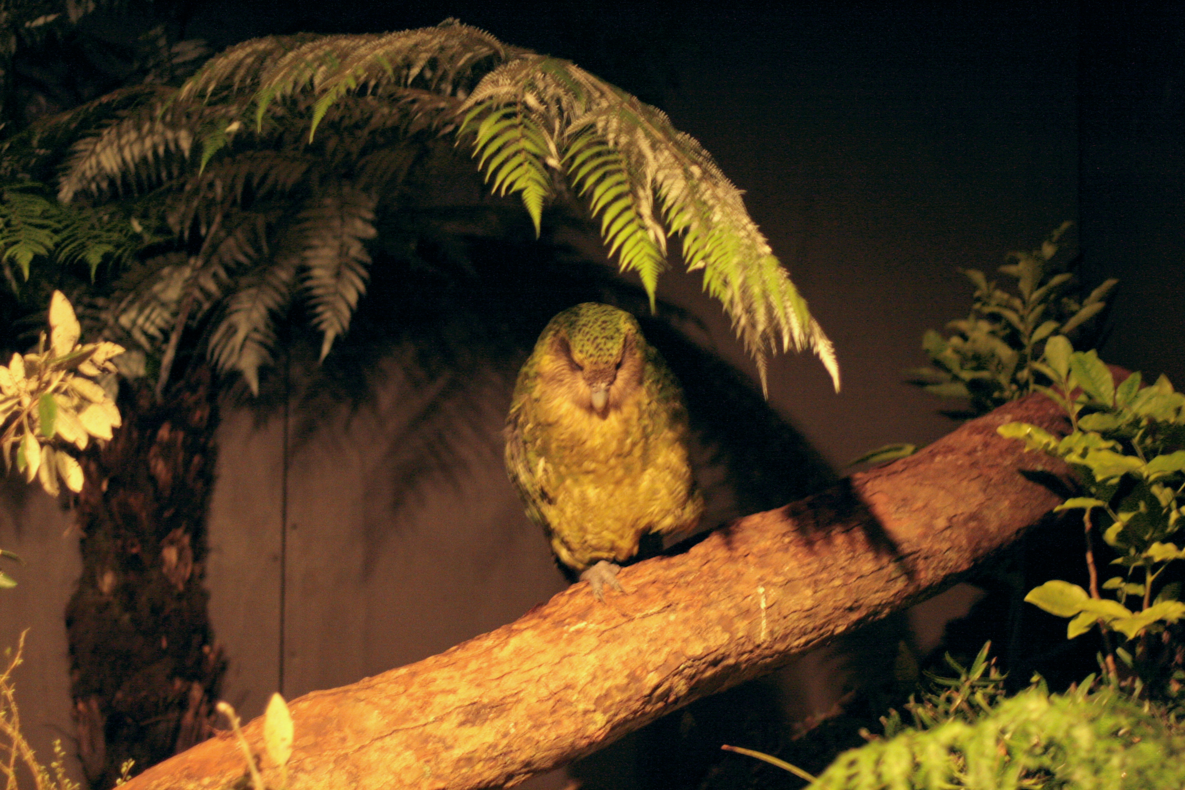 An adult male Kakapl, named Sirocco, born in 1997 and hand-raised. On show at Auckland Zoo during September 2009.